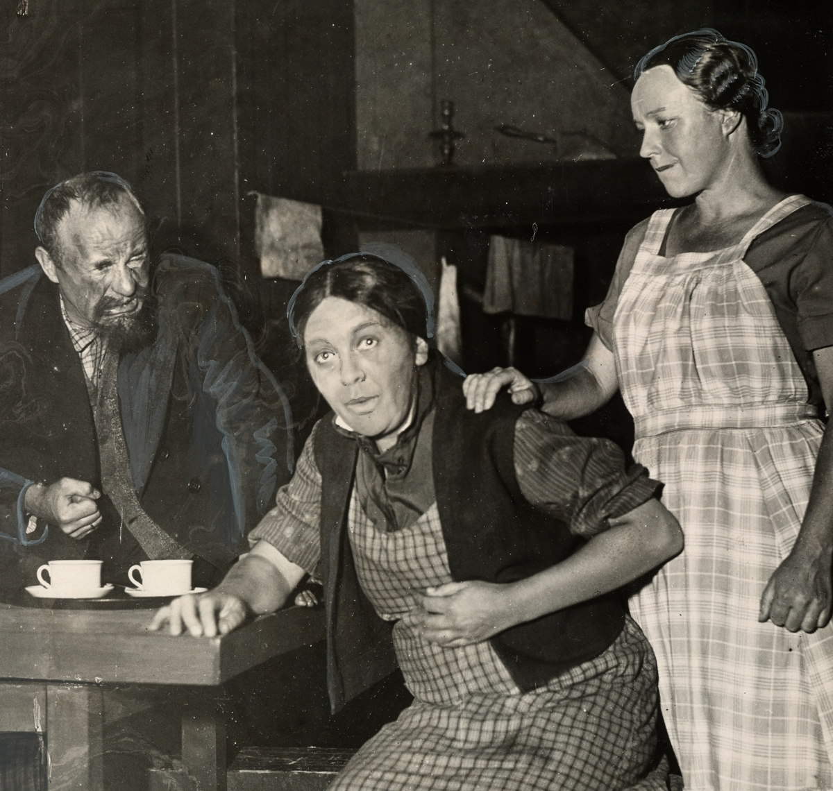 From "Medmenneske", around 1937. From left: Lars Tvinde, Dagmar Myhrvold and Ragnhild Hald. Note: The source (DigitaltMuseum) states that Hald is in the center, but other sources[1] indicate that this is not correct (Hald is to the right and Myhrvold is in the centre.)